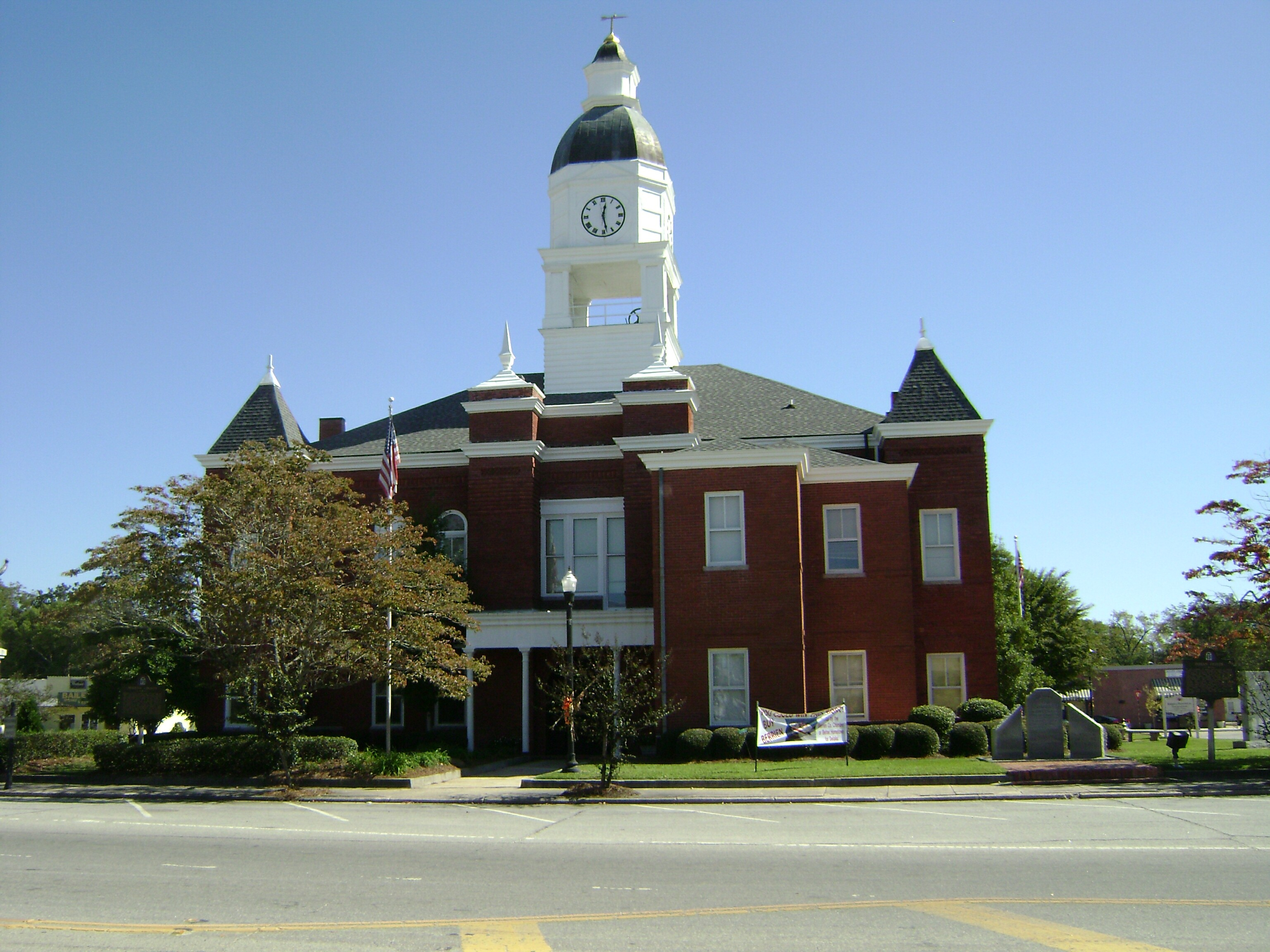 Berrien County Courthouse in Nashville, GA